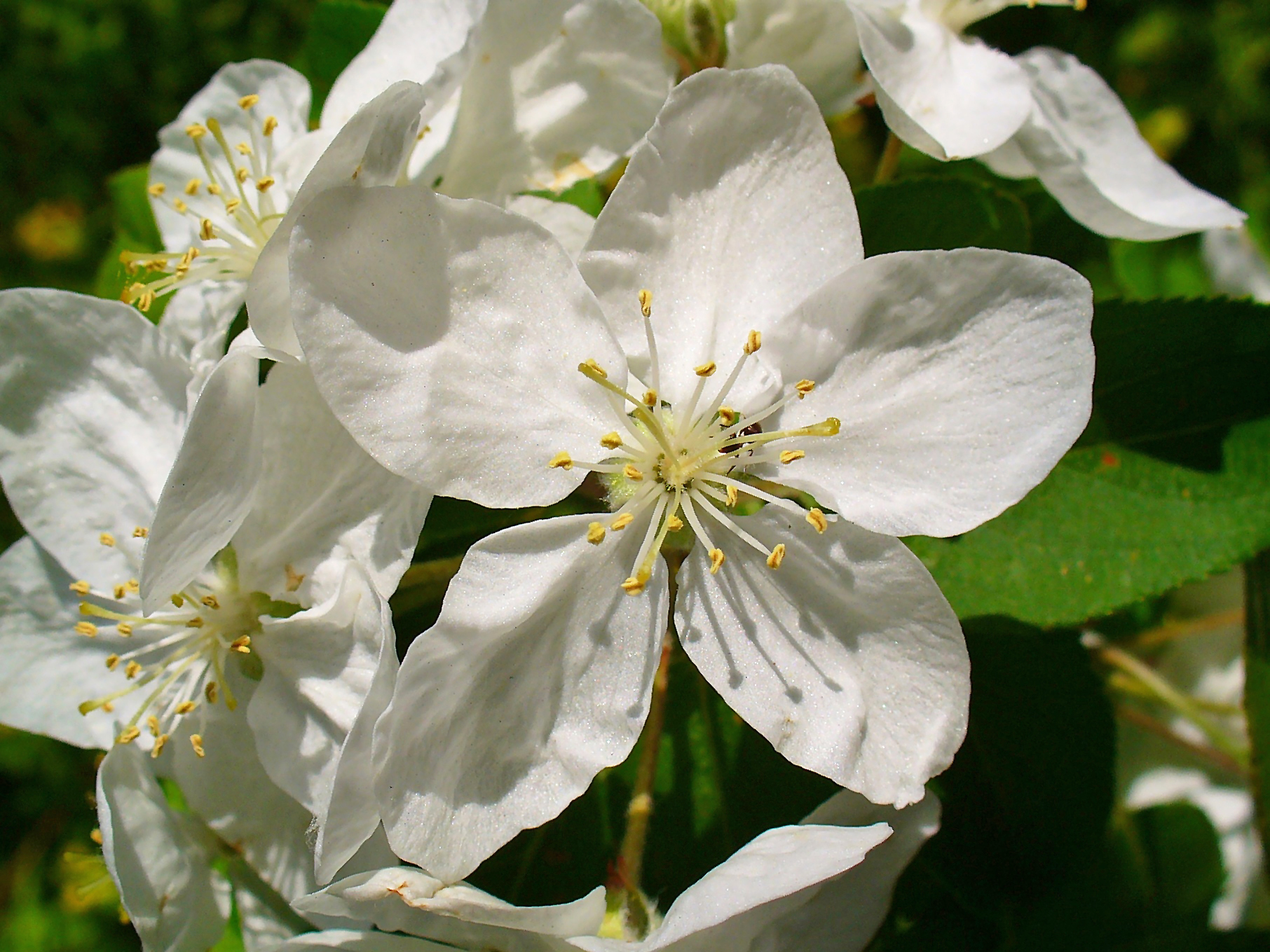 Malus sylvestris, Rosaceae, European Wild Apple, flower; Botanical Garden KIT, Karlsruhe, Germany.